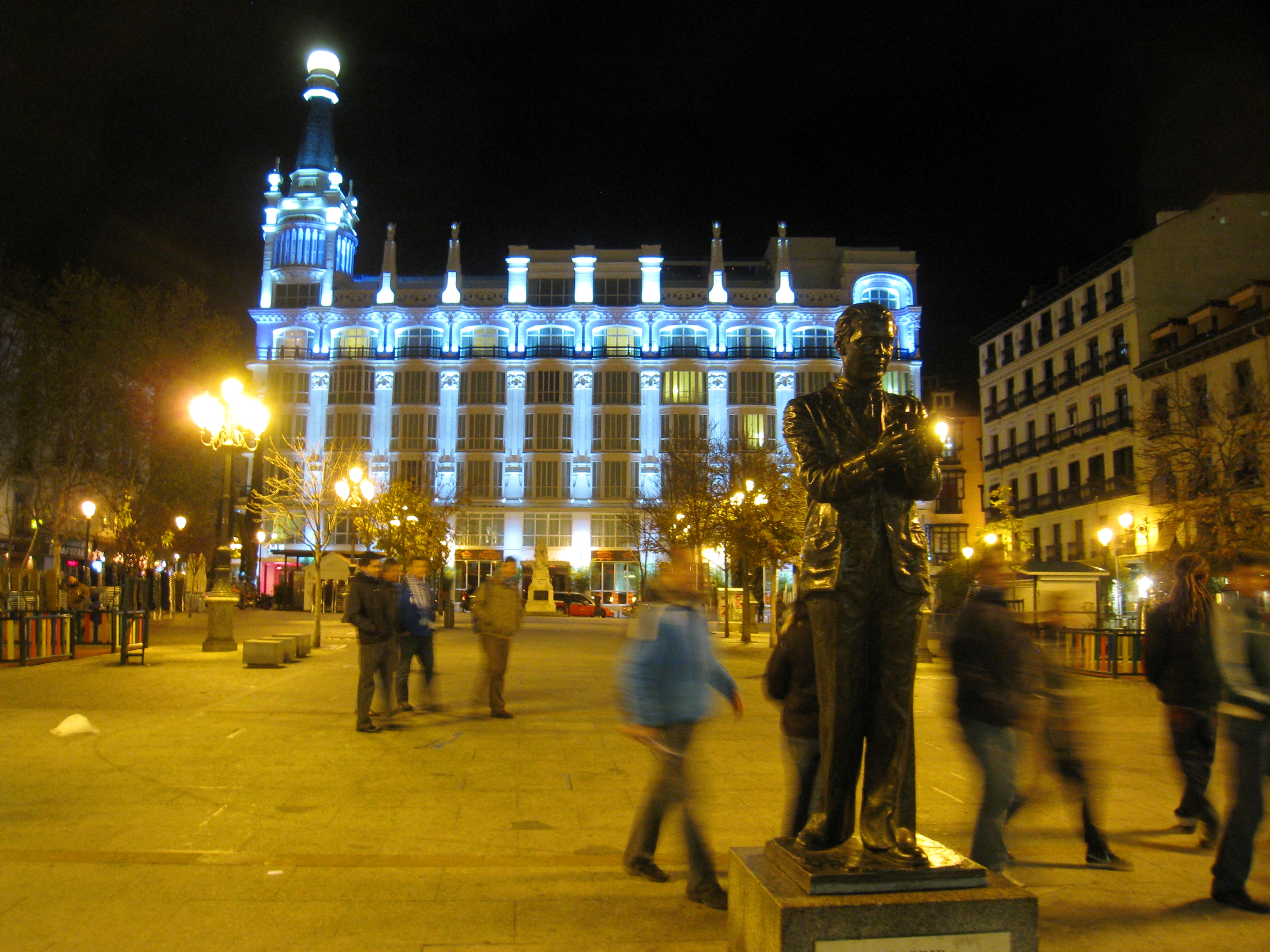 Night scene in Plaza de Santa Ana, Madrid, Spain. I took this photograph.